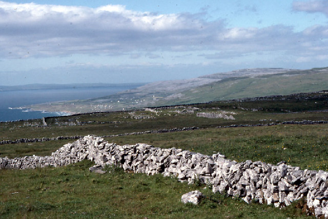 Western coastline of The Burren from Dereen West. South from Fanore: this high vantage-point allows you to see Dobhach Bhrainin the highest point in the Burren hills.